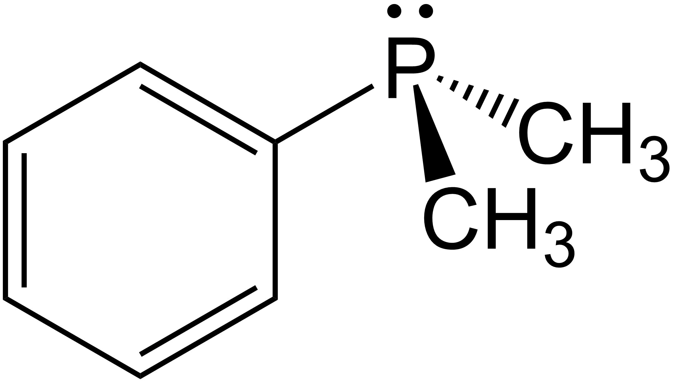 Dimethylphenylphosphine 2D molecular structure